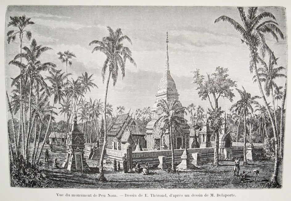 Voyage d'exploration en Indo-Chine - (1885, Francis Garmier)